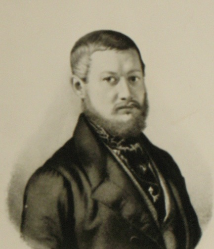 Oskar von Arnim-Kröchlendorff